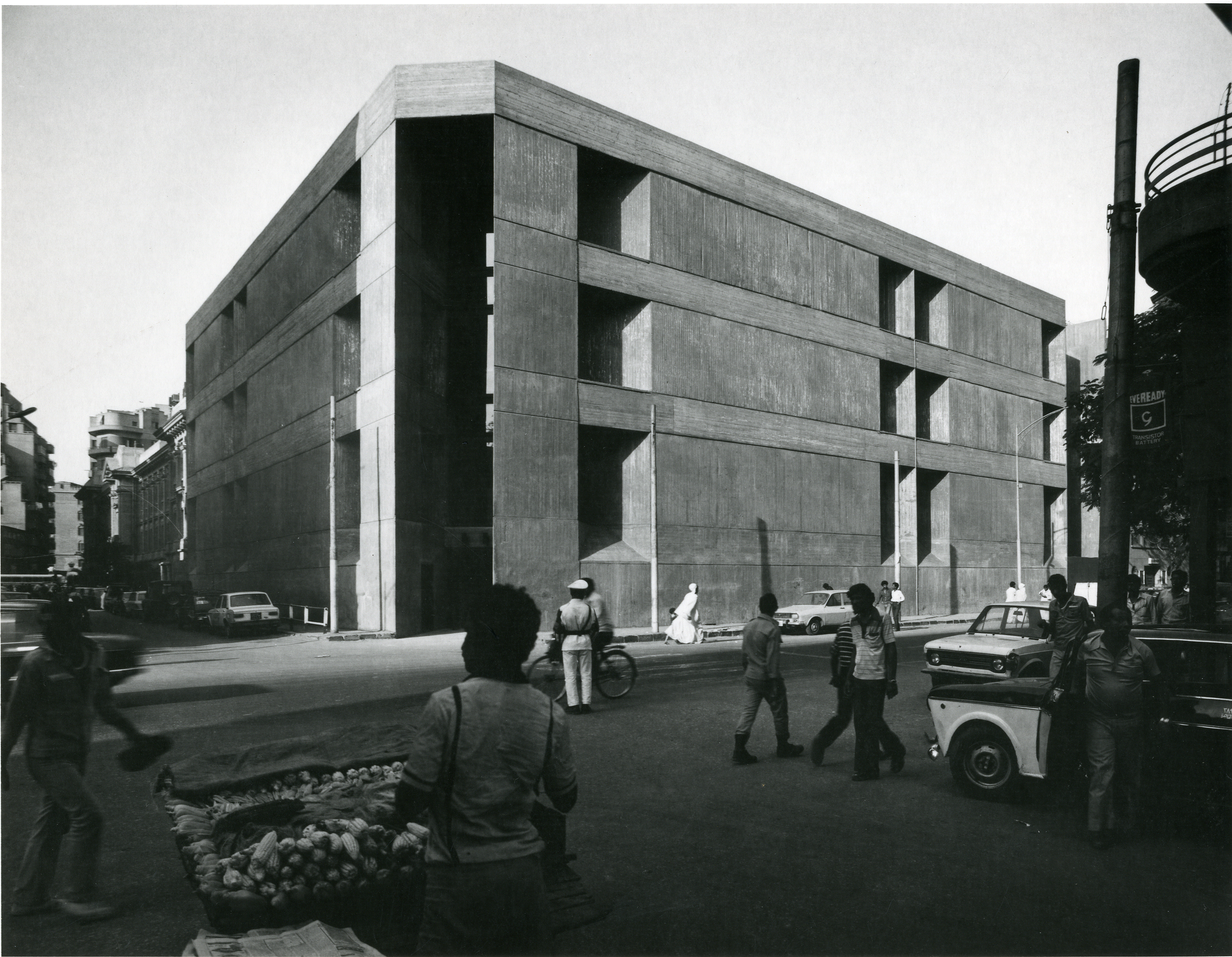 Exterior view of the AUC Greek Campus Library building, during construction in 1981.